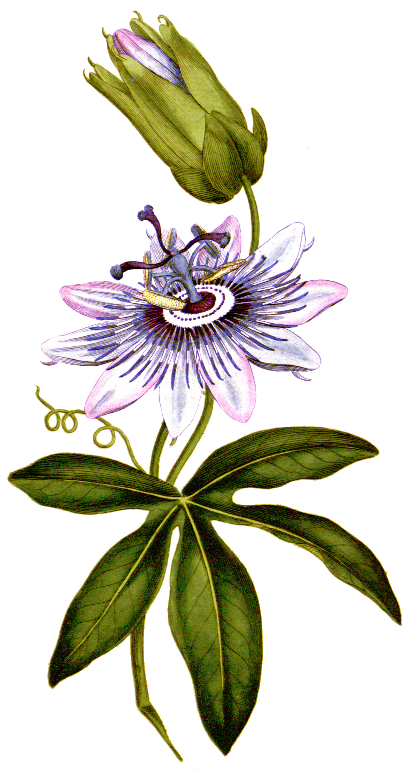 Plate 28, Passiflora cœrulea (Passiflora caerulea) From Curtis's Botanical Magazine, Volume 1. Edited from the original, plant image has been masked so that plant could be color corrected independent of paper.